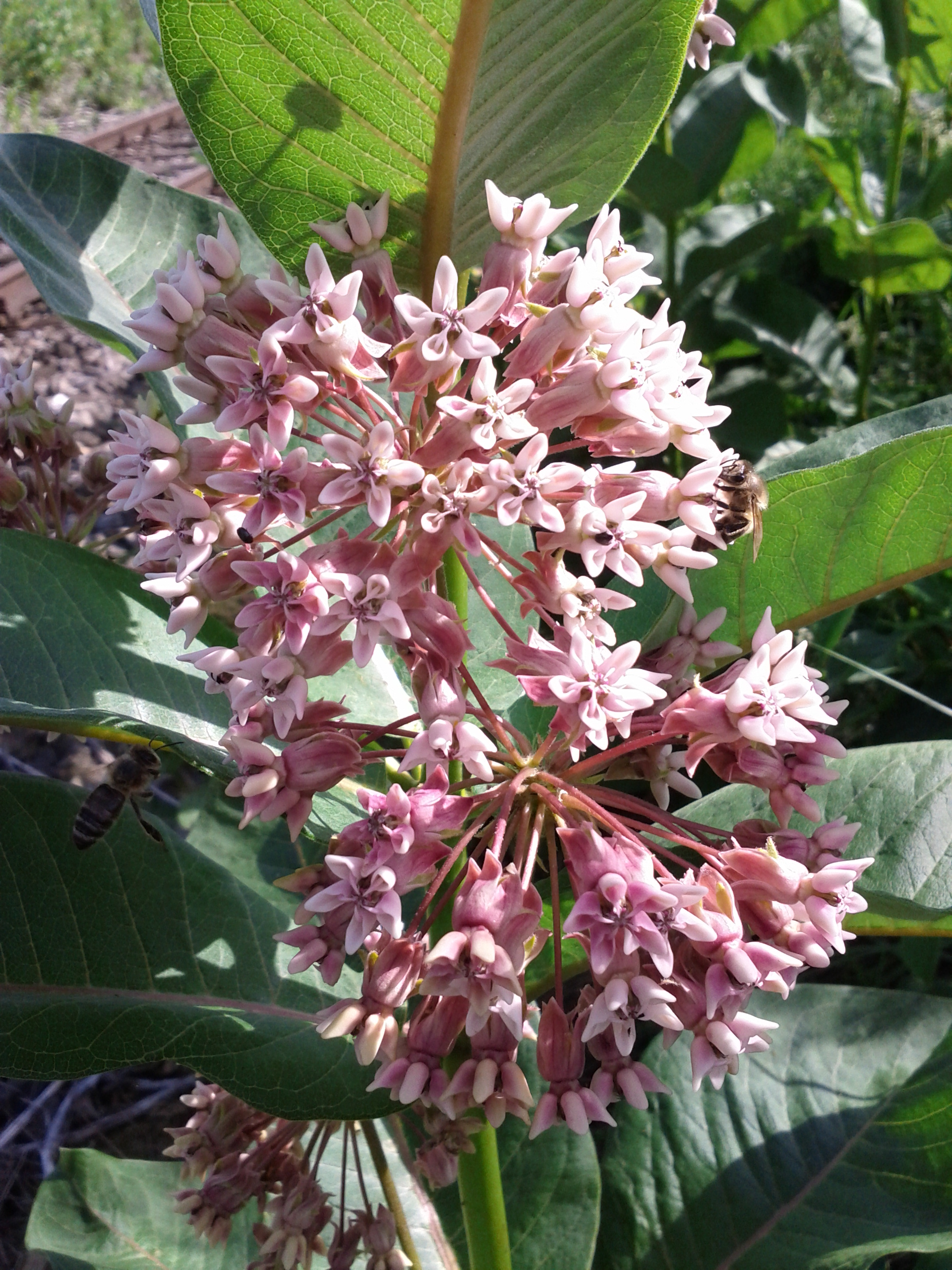 Inflorescence Taxonym: Asclepias syriaca ss Fischer et al. EfÖLS 2008 ISBN 978-3-85474-187-9 Location: near Karnabrunn, district Korneuburg, Lower Austria - ca. 250 m a.s.l. Habitat: ballast